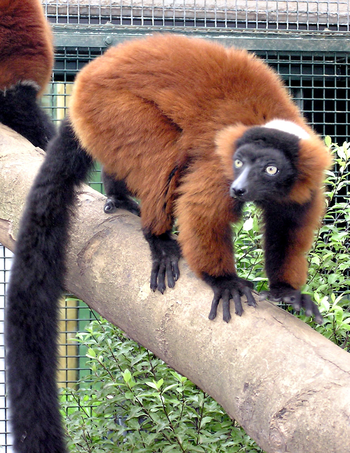 Red Ruffed Lemur Varecia rubra at Bristol Zoo, Bristol, England .